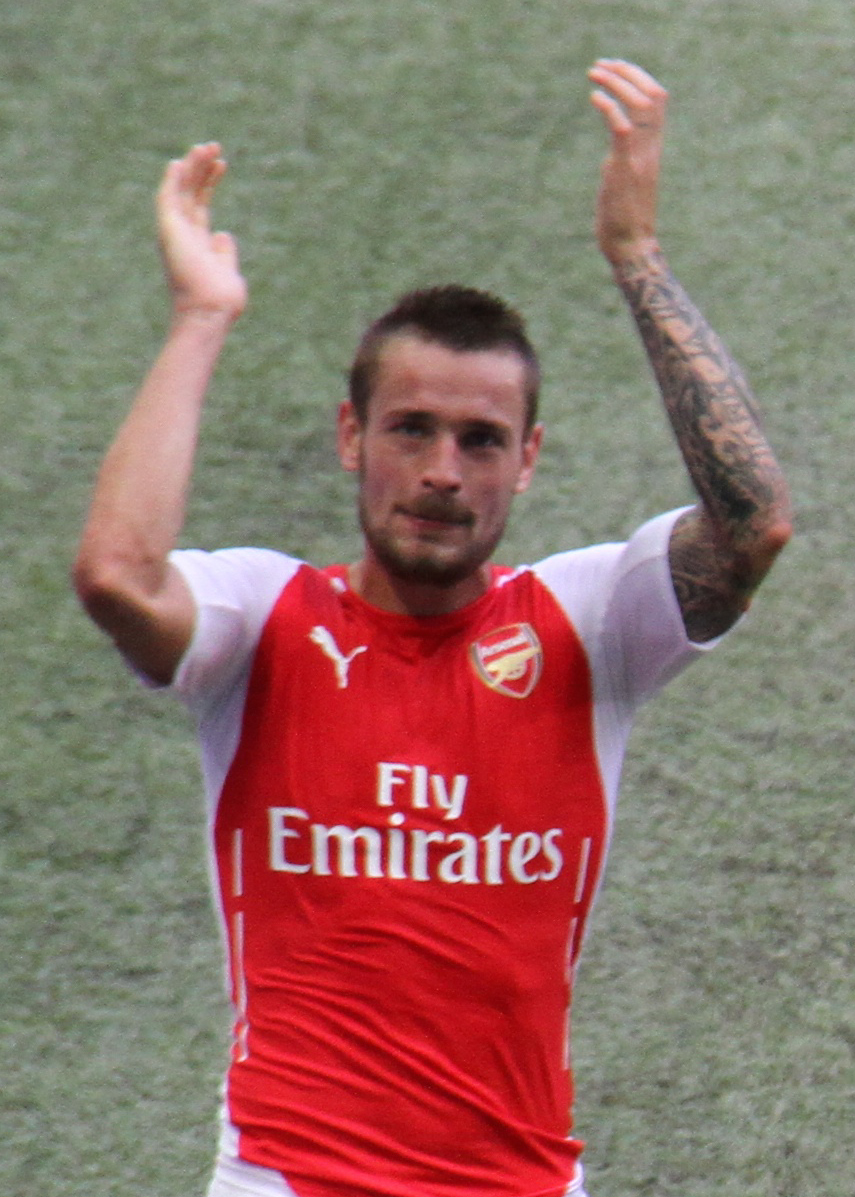 Cropped from original file, File:Community Shield 29 - Celebrating Giroud's goal (14904861873).jpg